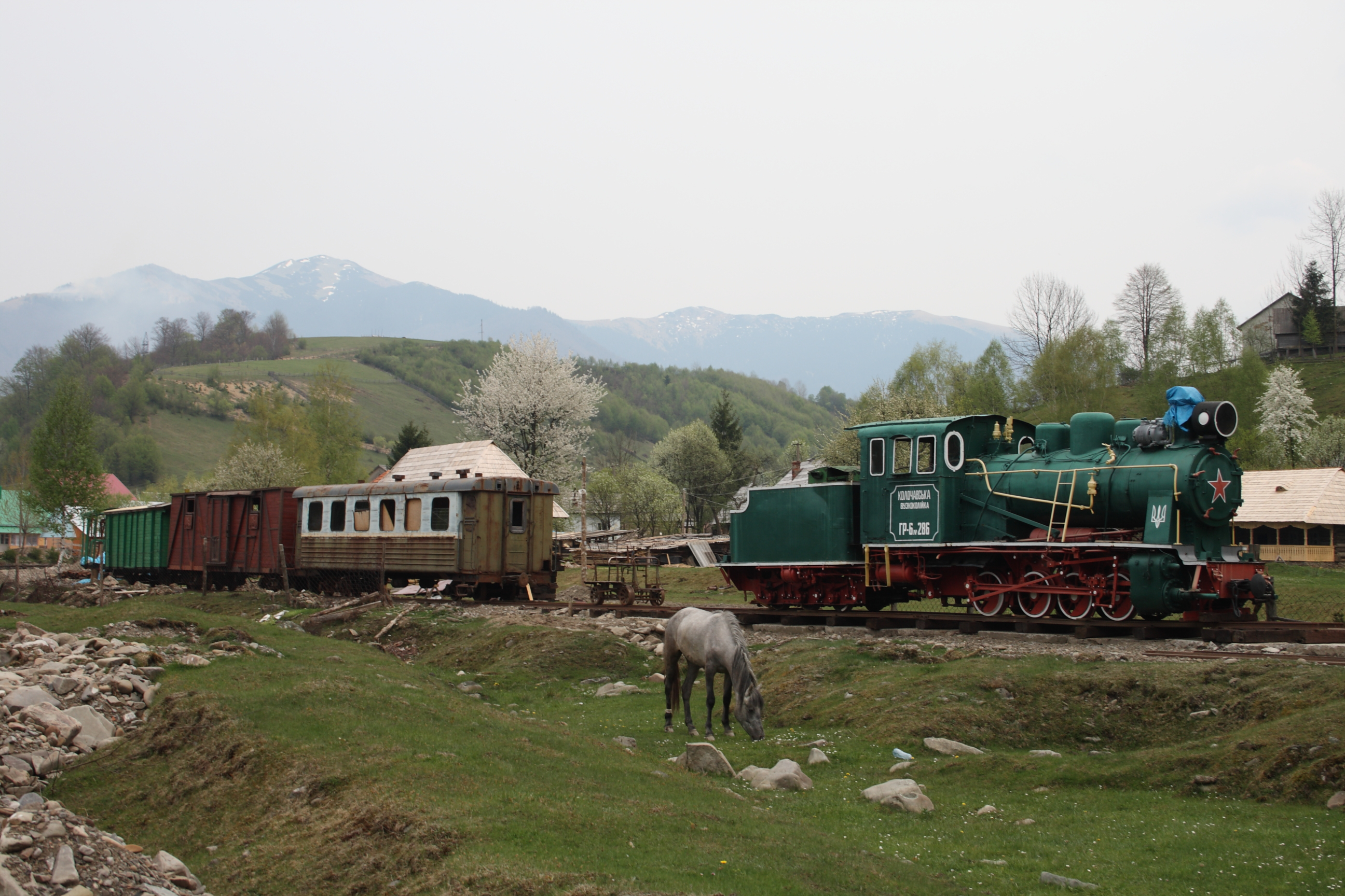 Narrow gauge railway in Kolochava, Ukraine